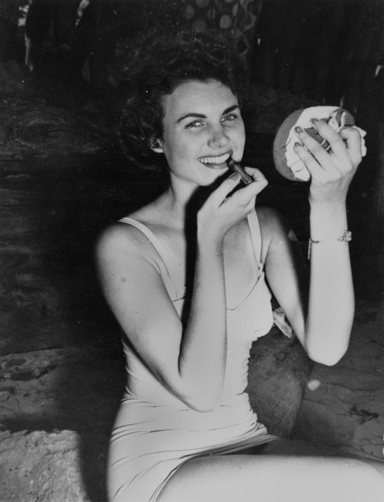 Photographer: Unidentified Location: Suttons Beach, Queensland, Australia View this image at the State Library of Queensland: Information about State Library of Queensland’s collection: .au/